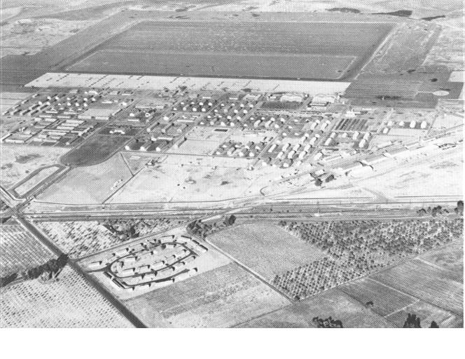 Merced Army Airfield, California, November 1942 Source: Source: Active Air Force Bases Within the United States of America on 17 September 1982 USAF Reference Series, OFFICE OF AIR FORCE HISTORY UNITED STATES AIR FORCE WASHINGTON, D.C., 1989